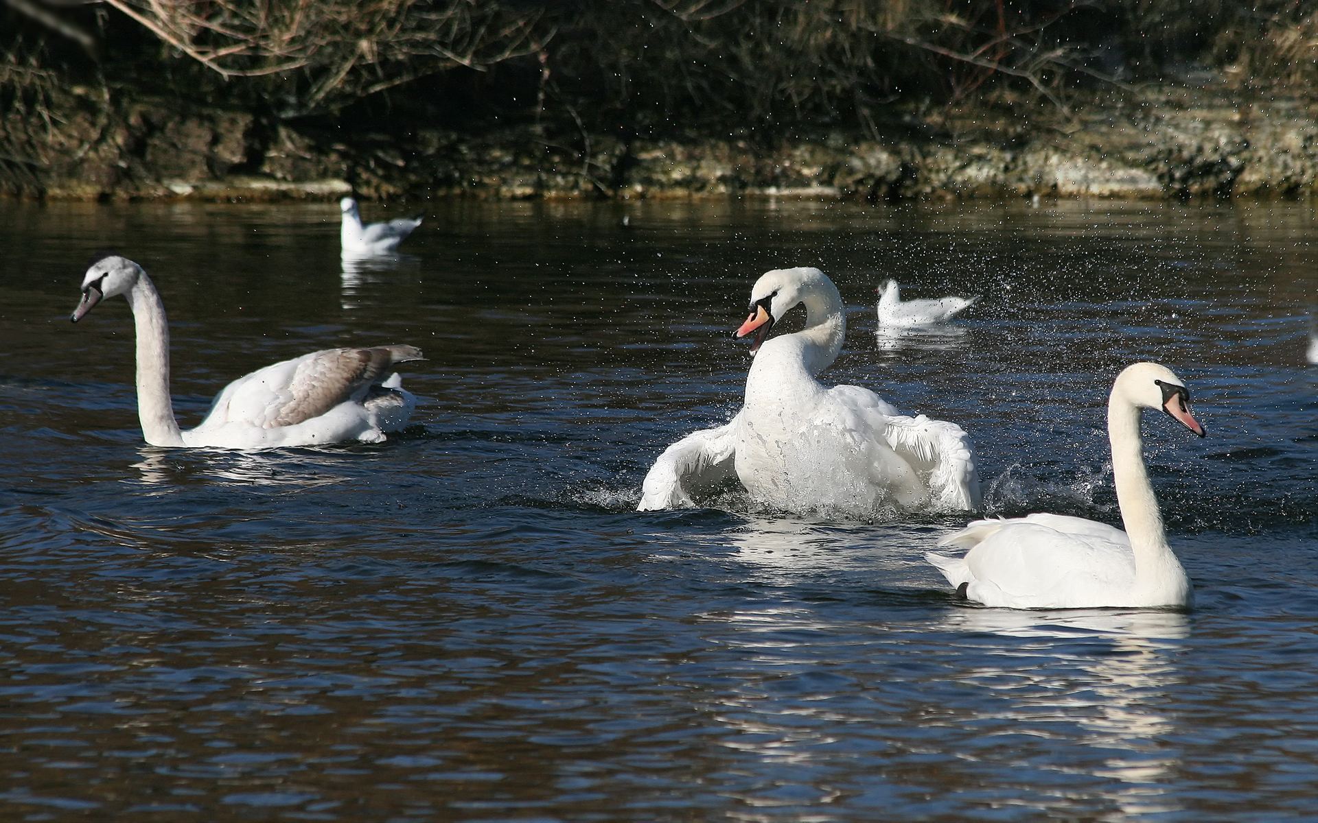 Description: The Mute Swan (Cygnus olor is a common Eurasian member of the duck, goose and swan family Anatidae. Both cygnus and olor mean "swan", in Ancient Greek and Latin, respectively.)